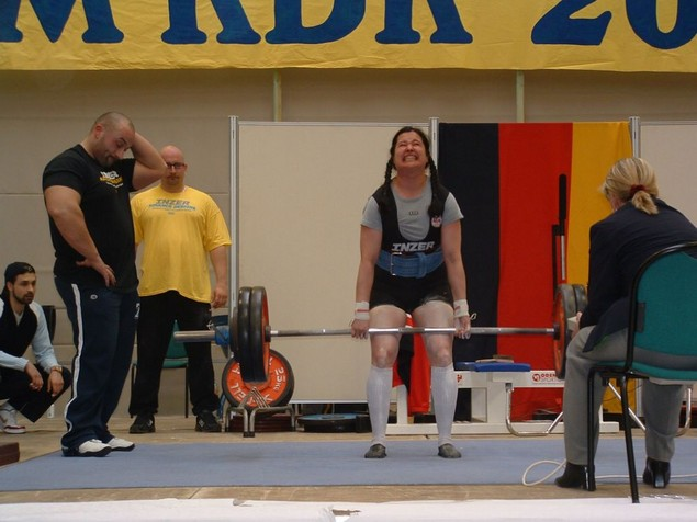 Kimiko Douglass-Ishizaka deadlift at the 2005 German Championships in Powerlifting